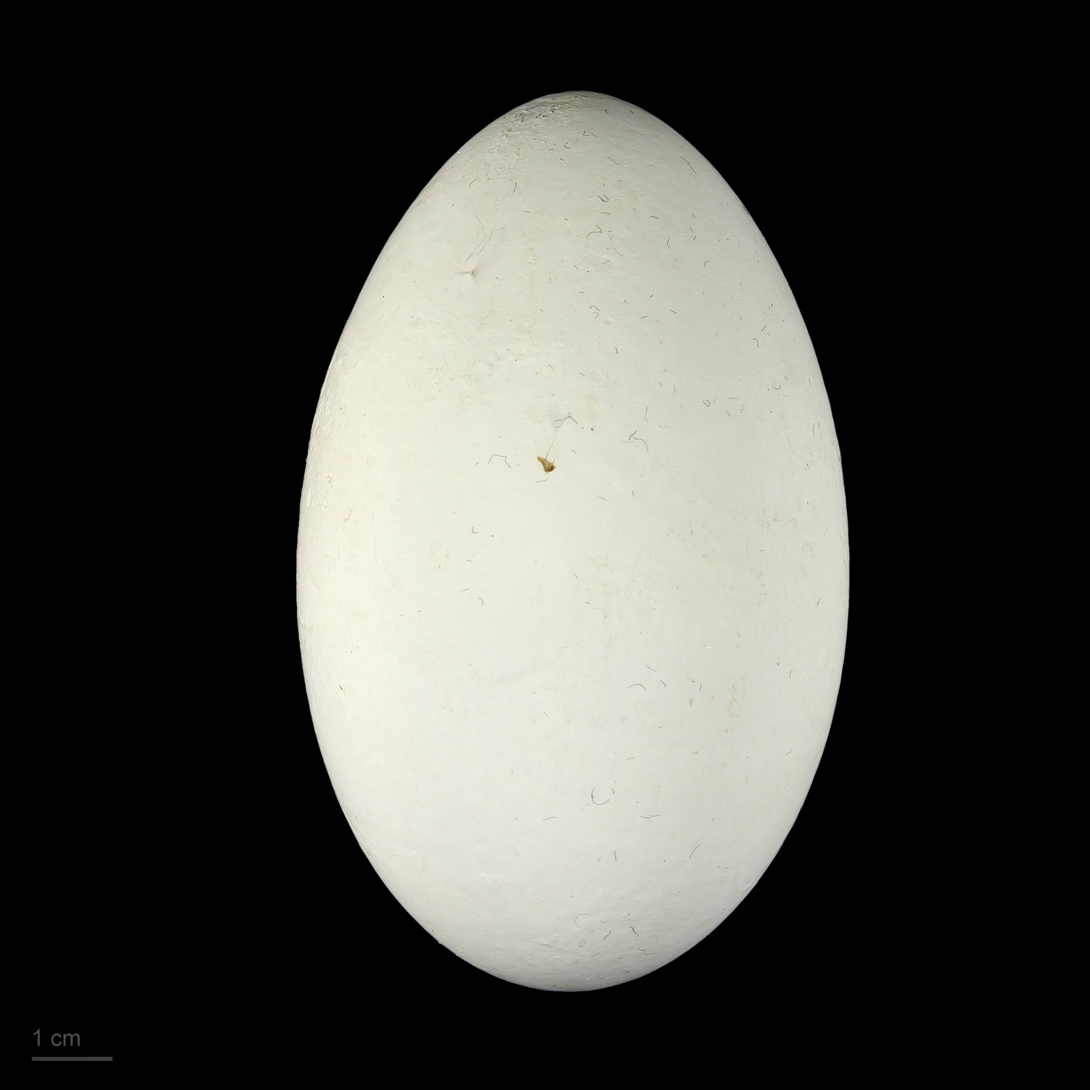 Eggs of great white pelican collection of Jacques Perrin de Brichambaut.